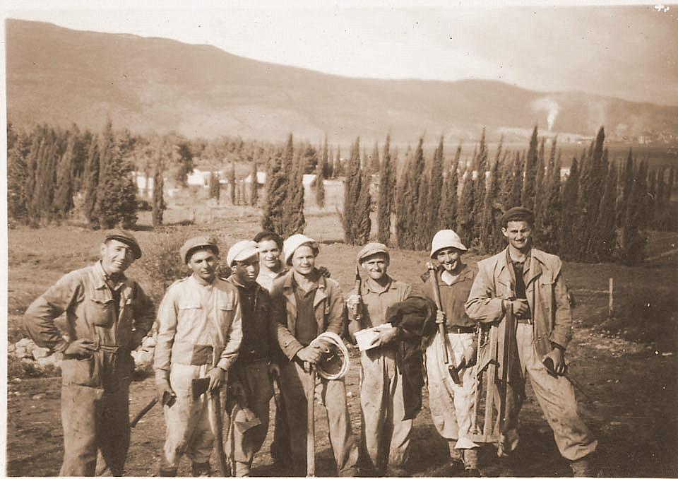 "Kevuzat Mehora\"